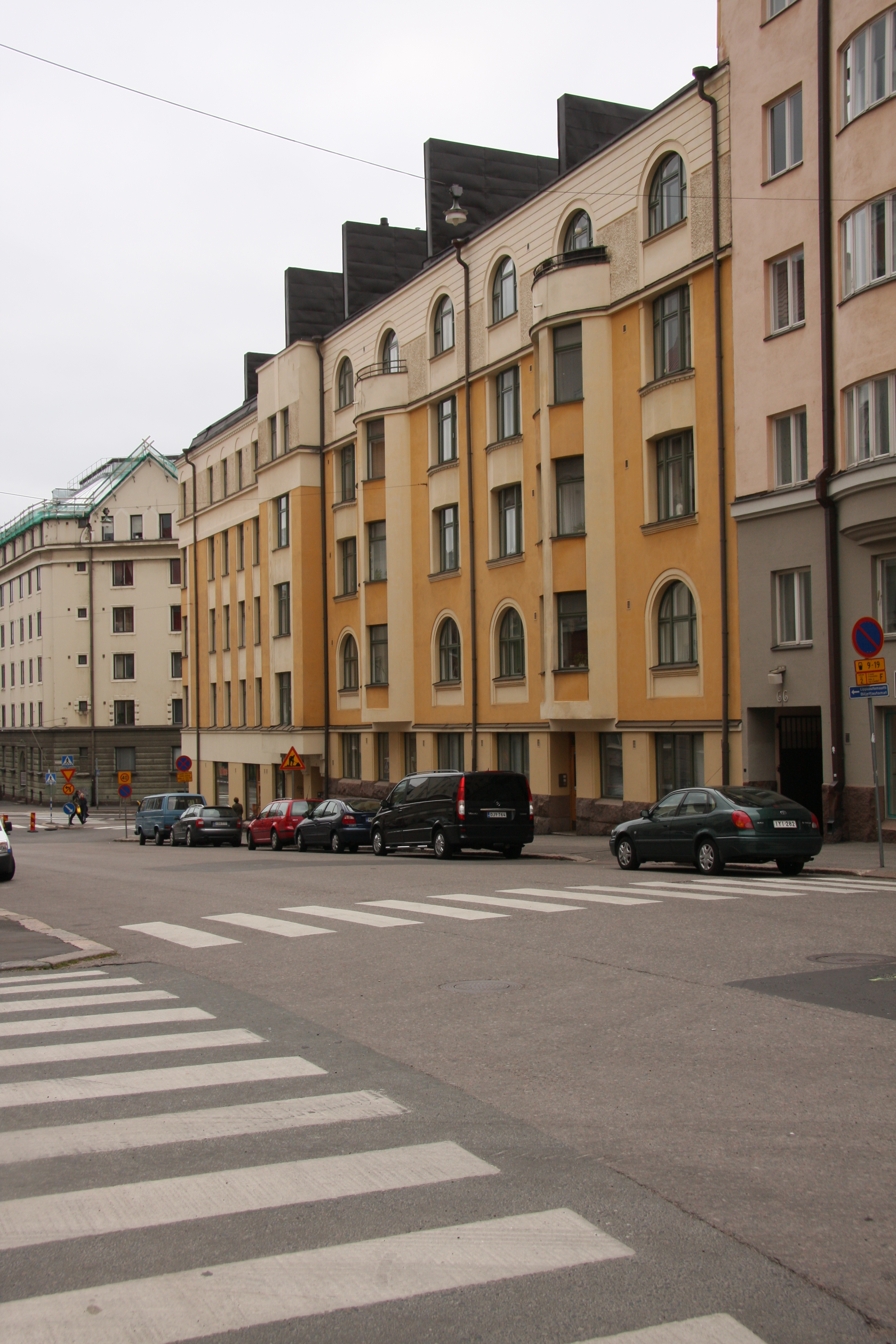 Fredrikinkatu 64, Helsinki, Finland